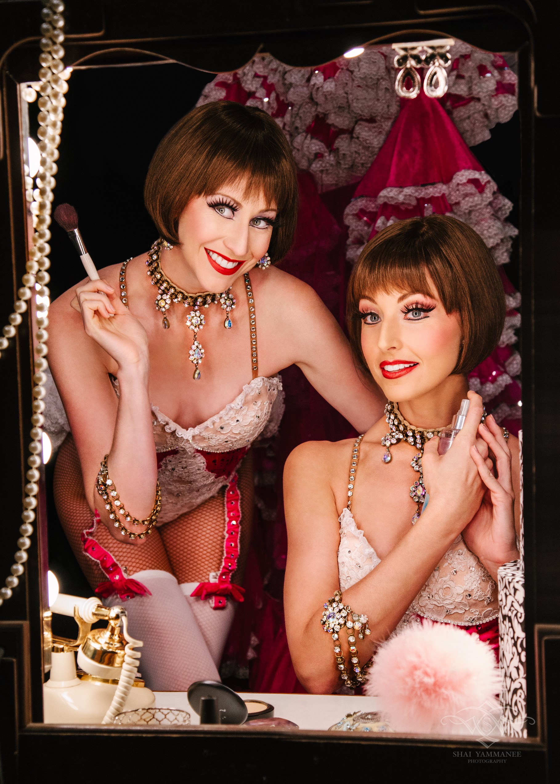 A fun shot of the two Dolly Sisters in the show Jubilee!